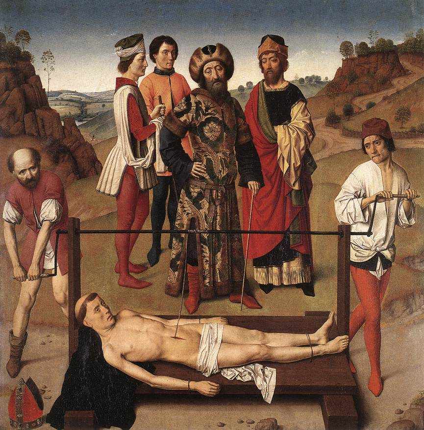 Dirk Bouts - Den helige Erasmus martyrium (1458). Detail of Image:Dieric Bouts 012.jpg